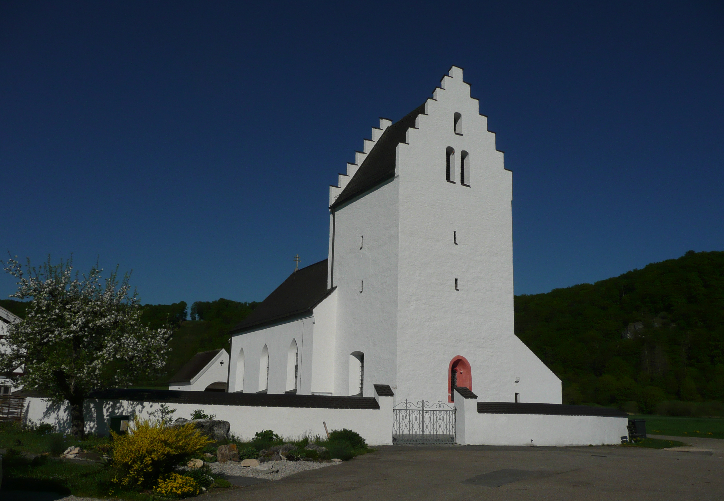 The church John the Baptist in Böhming near Kipfenberg in the Altmühl valley located within the district of the ancient Roman castle seen from E. This is a photograph of an architectural monument.